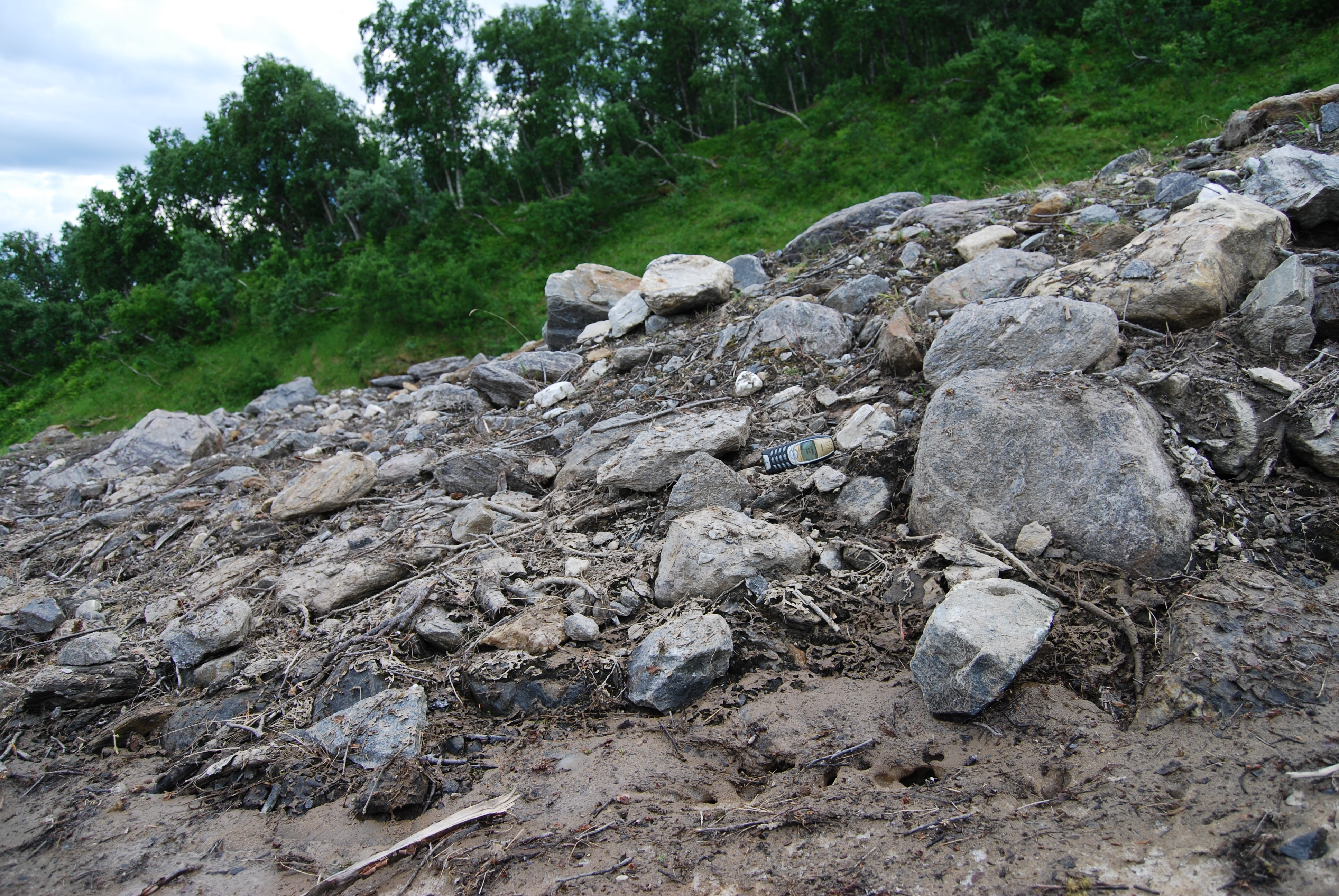 Sedimentary rock till after avalanche in Målselvfjorden, Målselv municipitaly, Norway